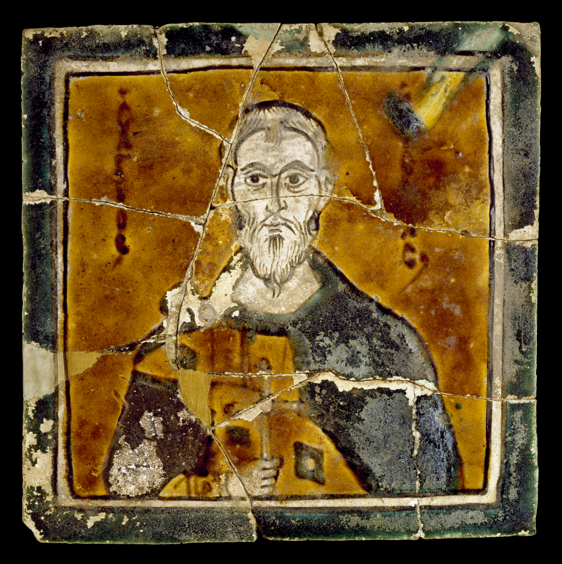 Saint Arethas was an Ethiopian soldier who was murdered in 523 because of his Christian faith. He is depicted here in Byzantine court dress, holding a cross as a sign of his martyrdom. The tile is one among three in the Walters Art Museum that have the same size and contain identical busts of male saints: the other two show Saint Basil (inv. 48.2086.17) and Saint Panteleimon (inv. 48.2086.4). This series probably formed a frieze on a church wall or altar screen.